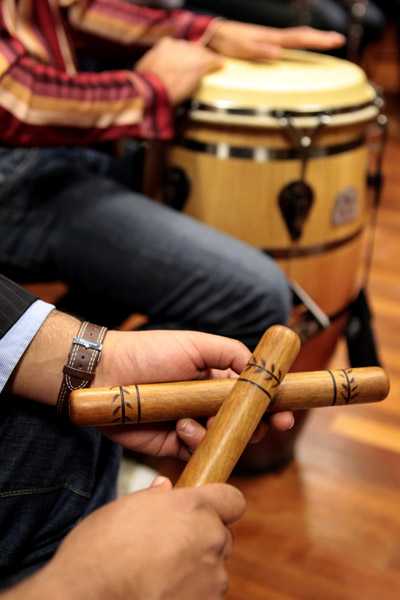 Latin jazz percussion sticks called 'clave' (foreground), and a conga drum in the background